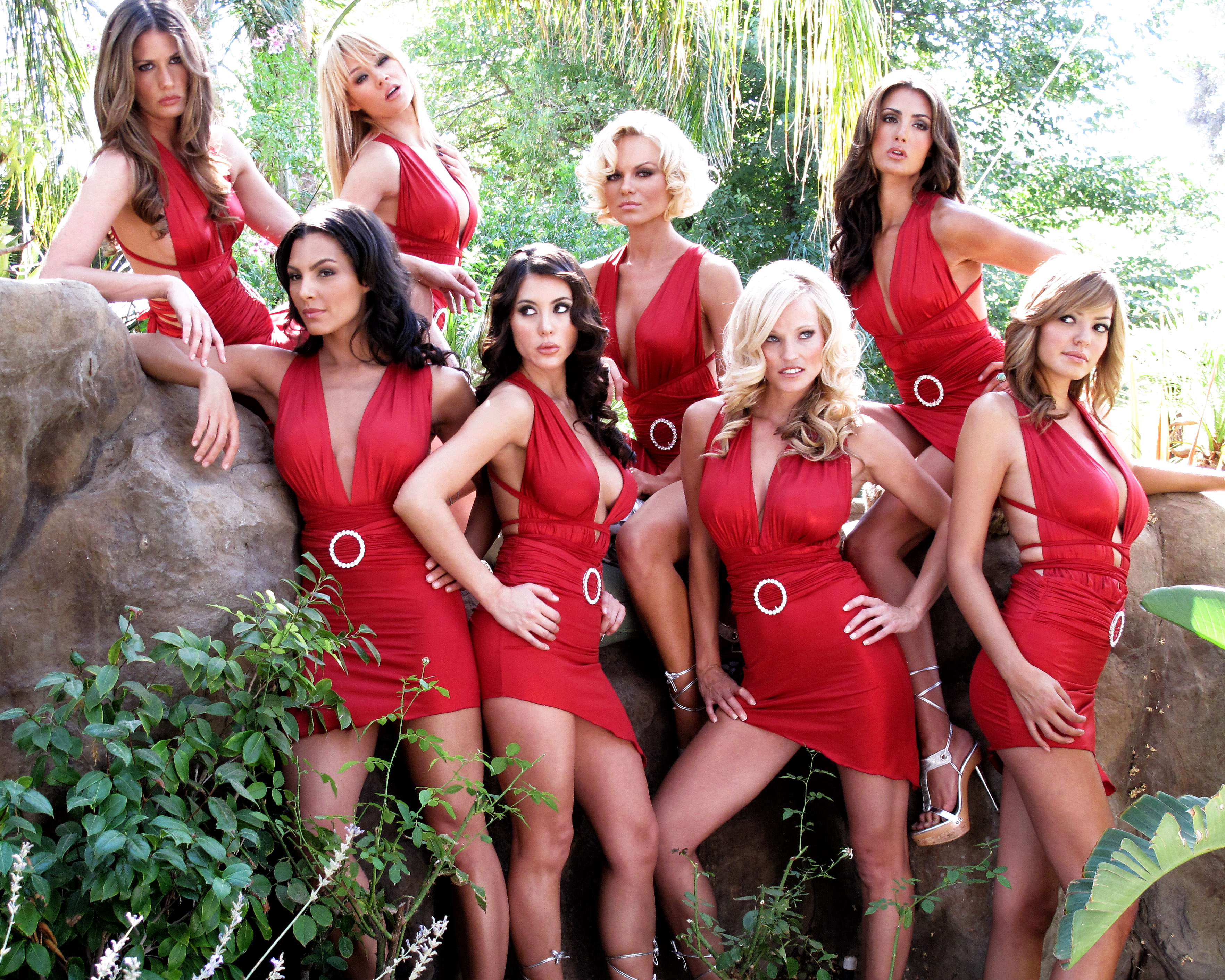 "Deal or No Deal" models posing for the cover of Runway Magazine - 10/10/2008 - Photo by Glenn Francis of In the picture are, back row from left to right: Lindsey Lockwood, Lisa Gleave, Anya Monzikova, and Katie Cleary. Front row from left to right are Amanza Smith, Ursula Mayes, Brooke Long, and Crystal Monte.